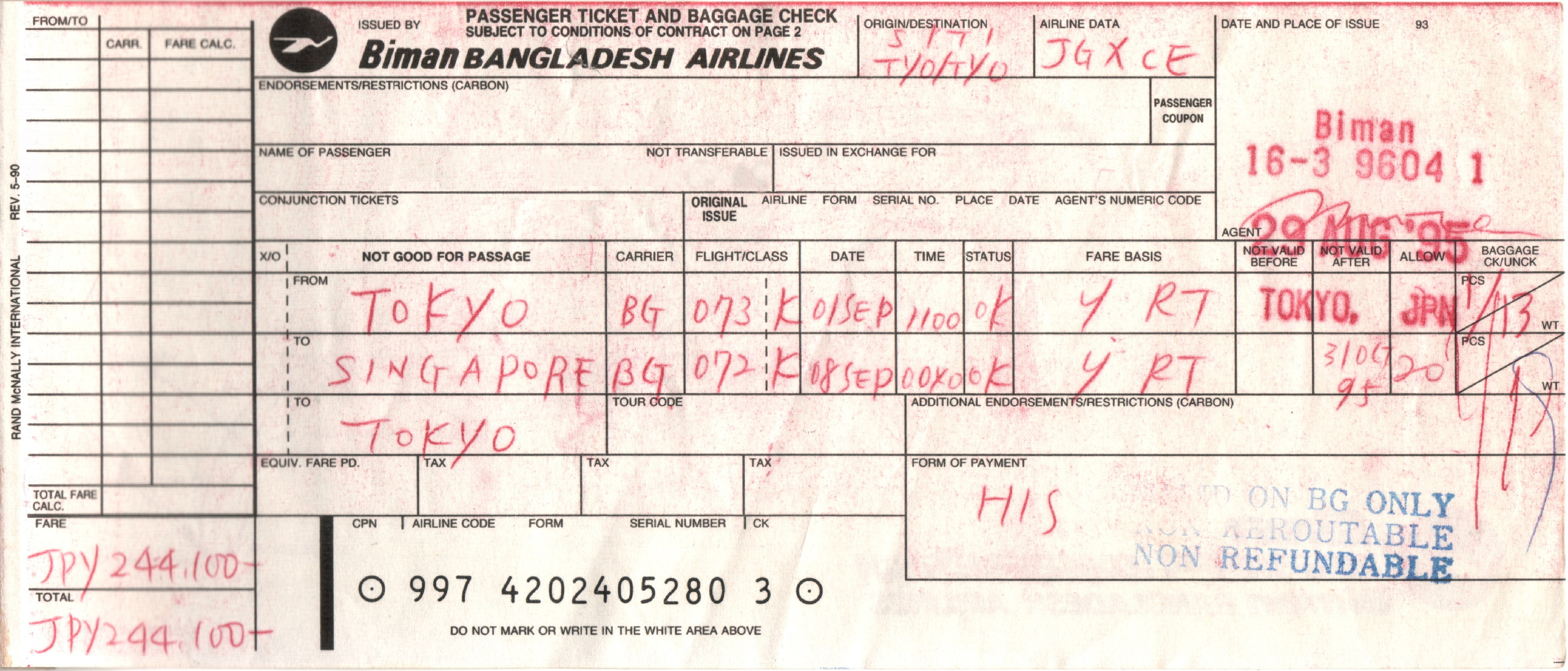 Flight coupon from a handwritten air ticket (manually issued passenger ticket), issued by Biman Bangladesh Airlines in 1995